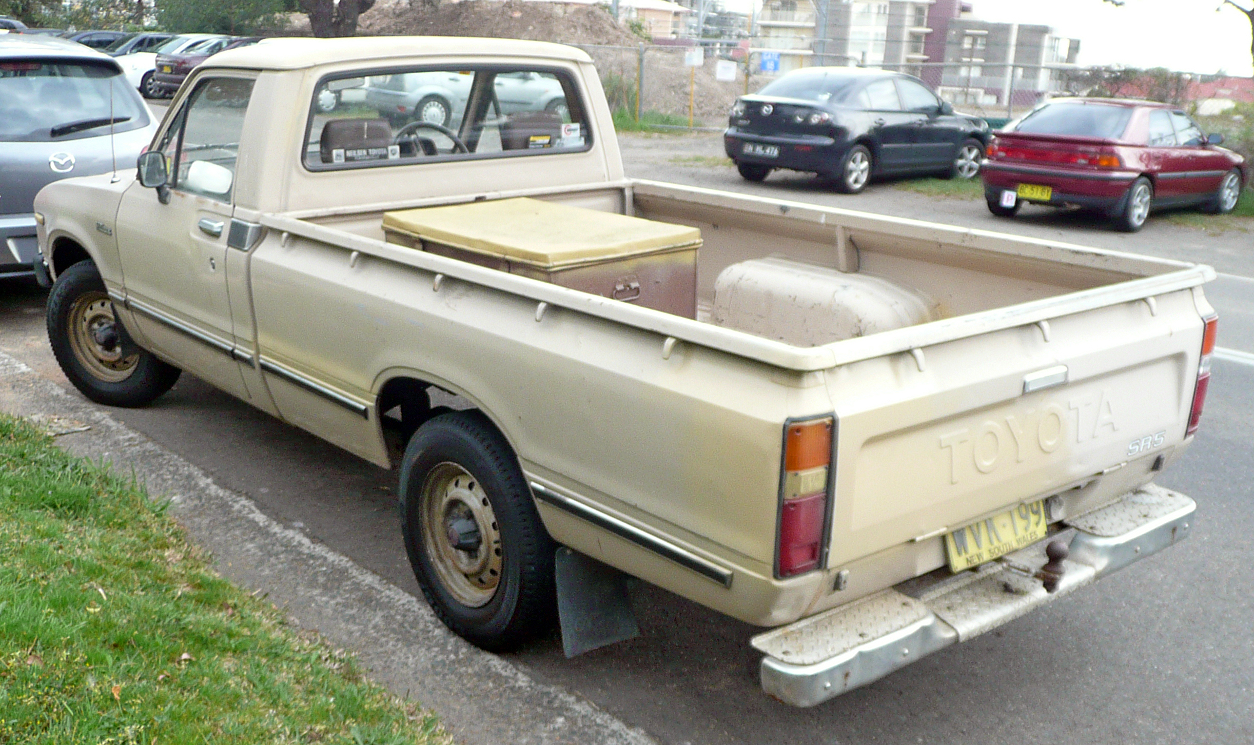 1982 Toyota HiLux (RN41R) SR5 2-door utility. The Roads & Maritime Services lists this vehicle (WVK199) as a "1982 CREAM TOYOTA RN 46R-KQ3 UTILITY". However, this must be a RN41R as RN46R is the 4WD version and this is RWD according to RedBook. Photographed in Sutherland, New South Wales, Australia.